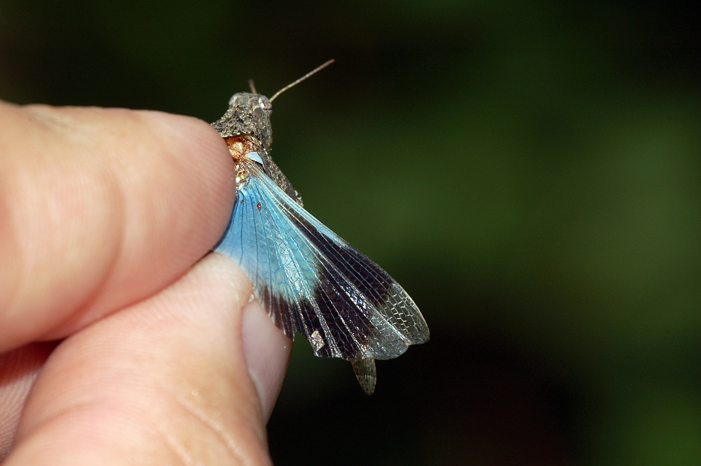 Wing of Oedipoda caerulescens, Schwanheim Dune, Frankfurt/Main, Germany